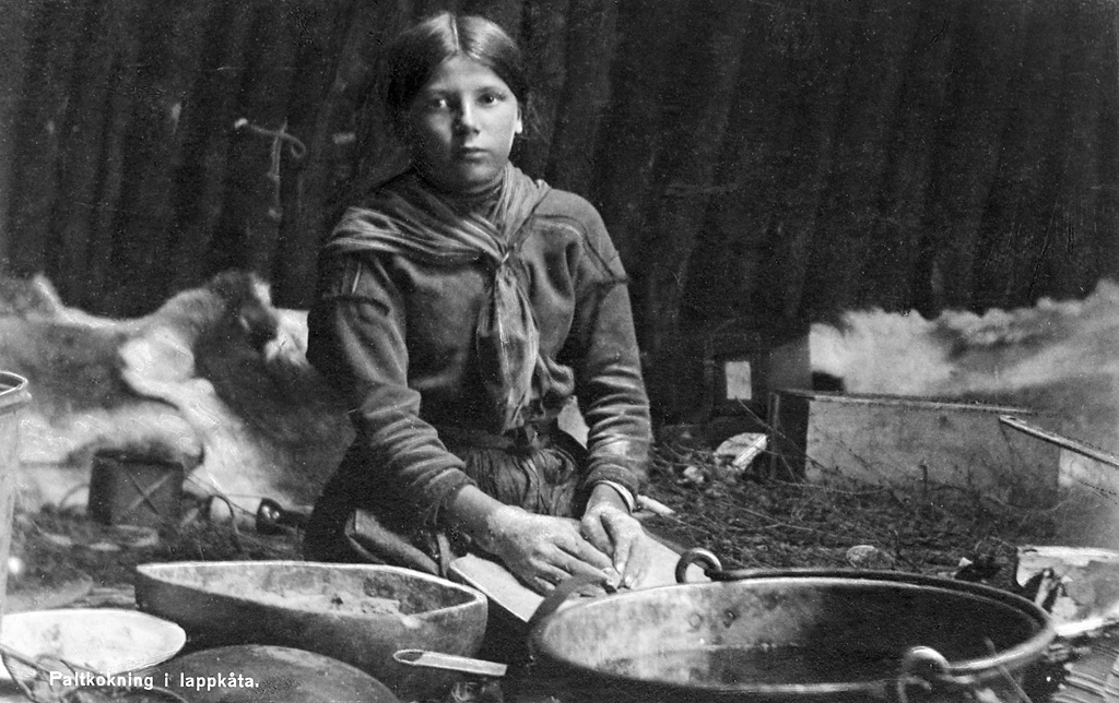 Girl in a Sami cot in Lapland, cooking "palt" - a traditional potato dish. Flicka som kokar palt i en samekåta. Parish (socken): Jukkasjärvi Province (landskap): Lappland Municipality (kommun): Kiruna County (län): Norrbotten Photograph by: Unknown. Almquist & Cöster Date: 1930-1959 Format: Cliché, film with text Persistent URL: Read more about the photo database (in english)